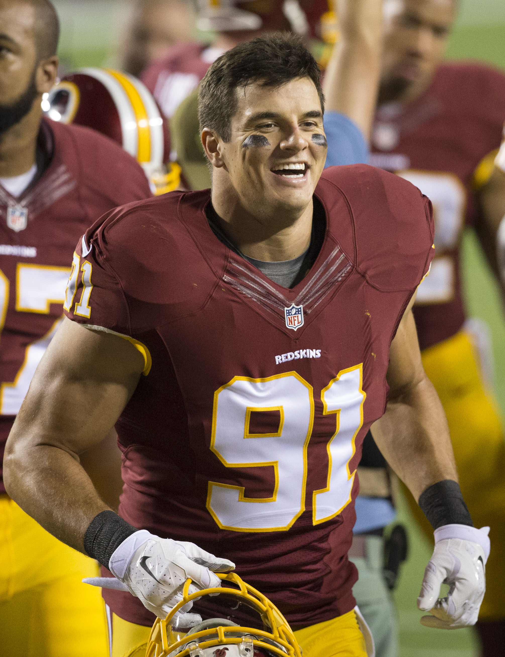 Washington Redskins linebacker, Ryan Kerrigan, in a game aginst the New York Giants on 9/25/2014.